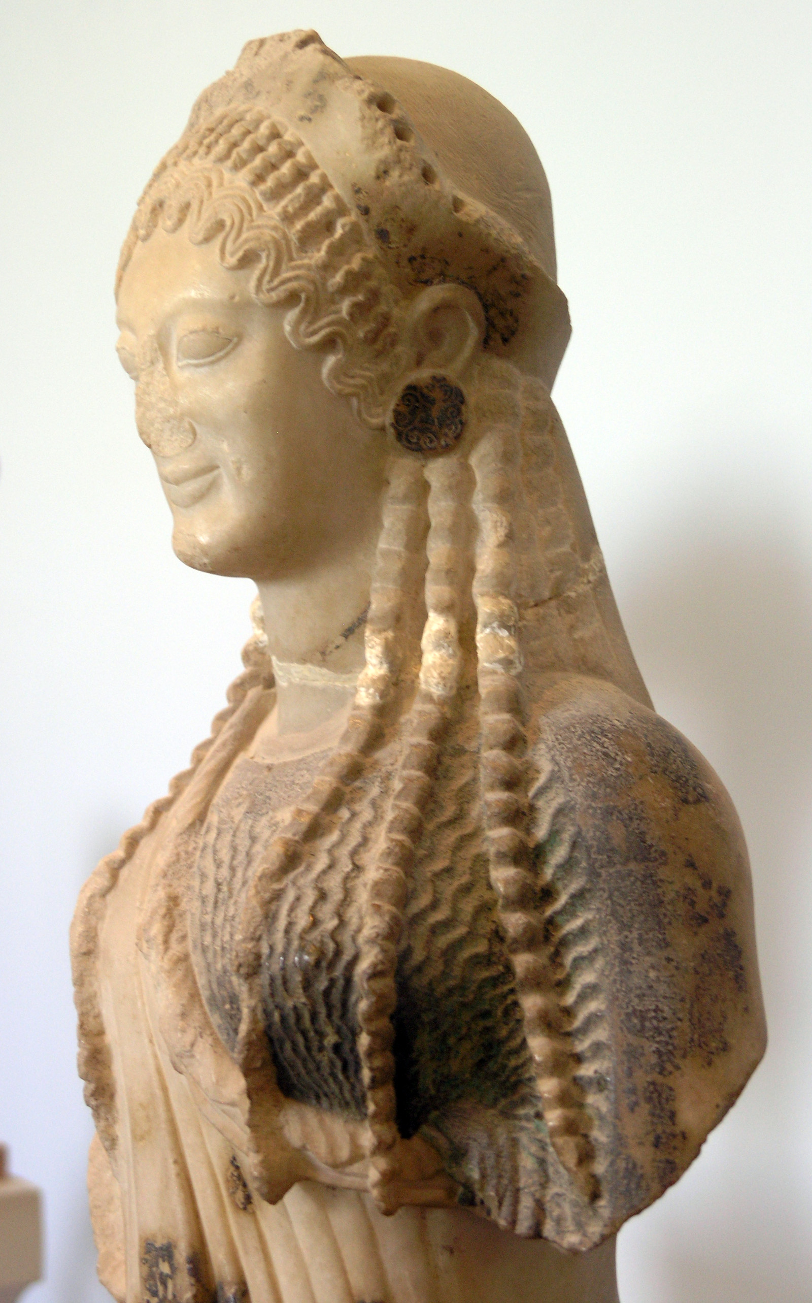 Chiotissa kore, by Archermos of Chios. ca. 520-510 BC